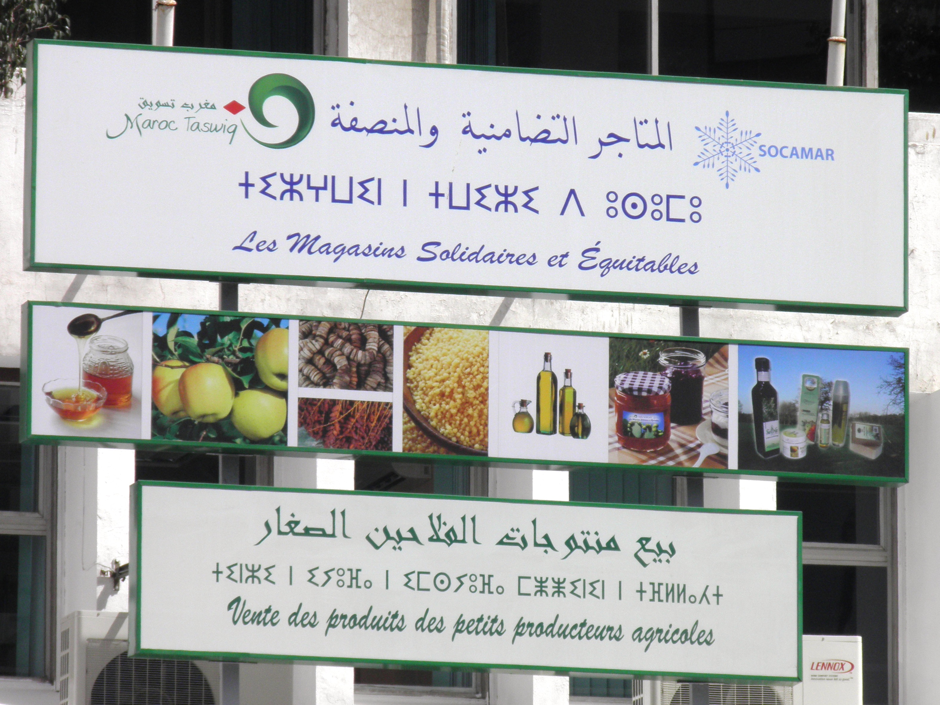 Sign of Maroc Tawsiq's Les Magasins Solidaires et Équitables ("The fair and solidarity stores")